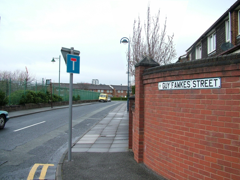 Guy Fawkes Street In Salford, England. Runs down the east side of Ordsall Hall.